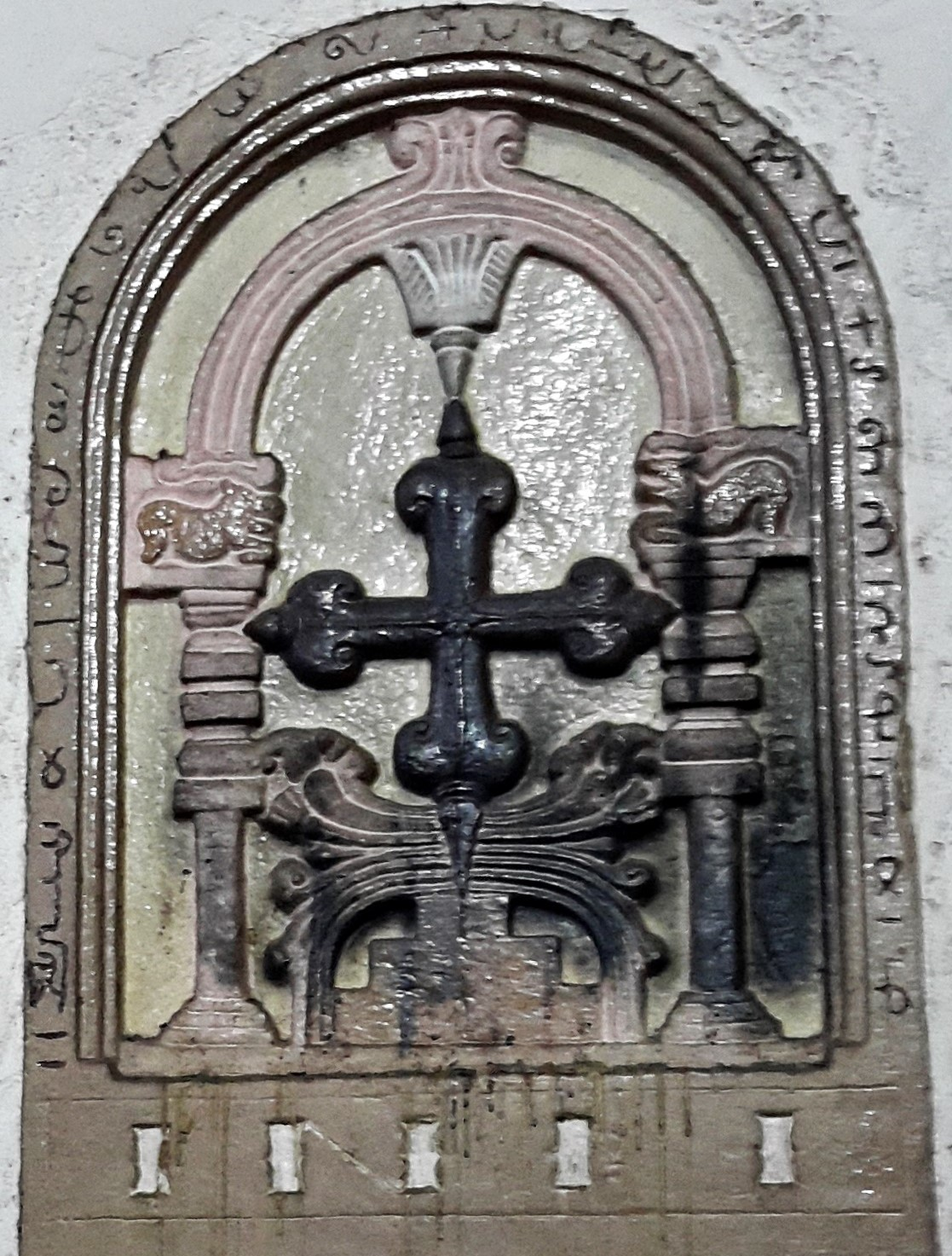 Nasrani cross @ Kadamattom church @Ernakulam dt. Kerala, India